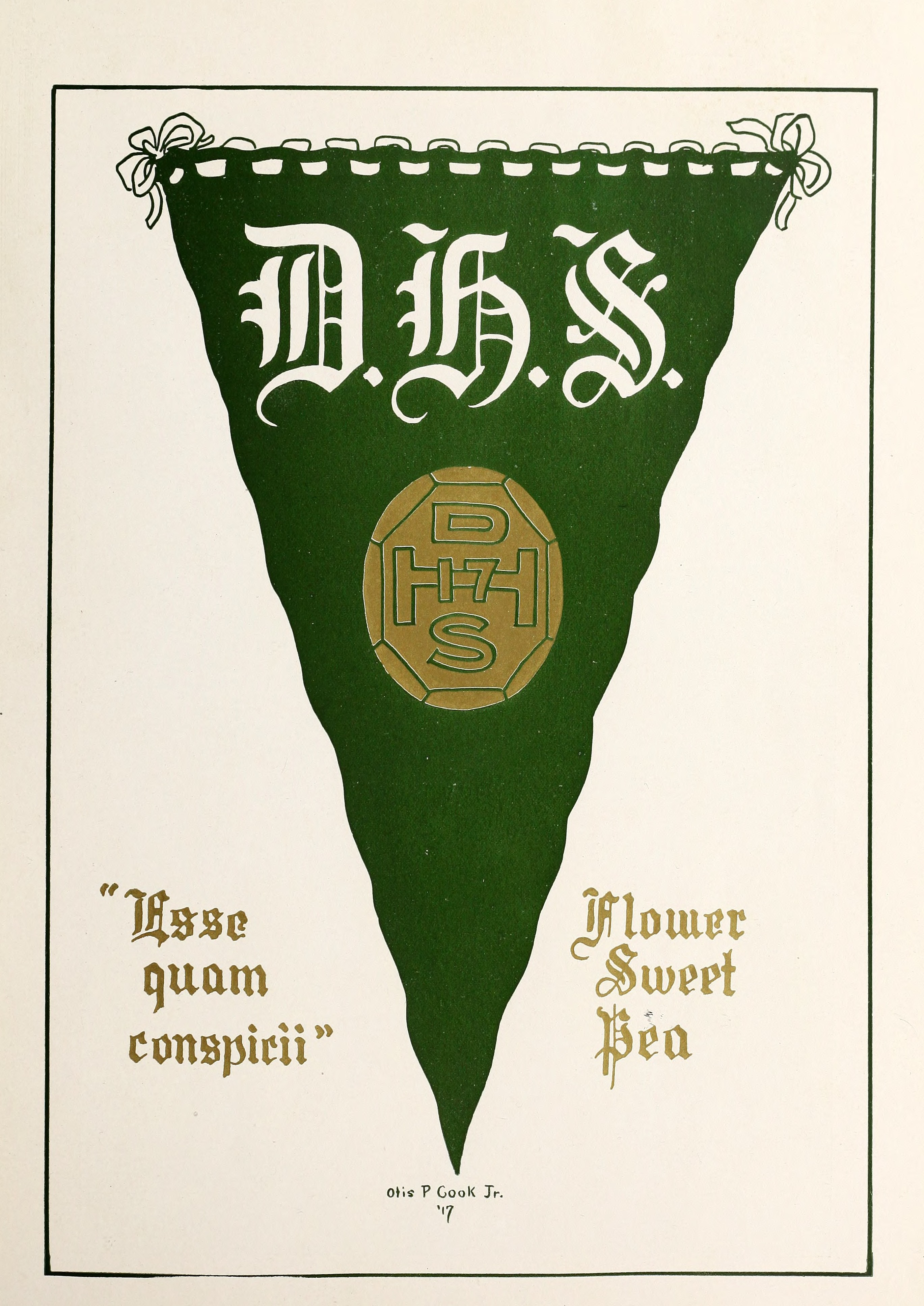 Title: The Messenger (1917) Year: 1917 (1910s) Authors: Durham High School (Durham, N.C.) Subjects: Campus publications--North Carolina--Durham. Publisher: Text Appearing Before Image: ' Text Appearing After Image: '